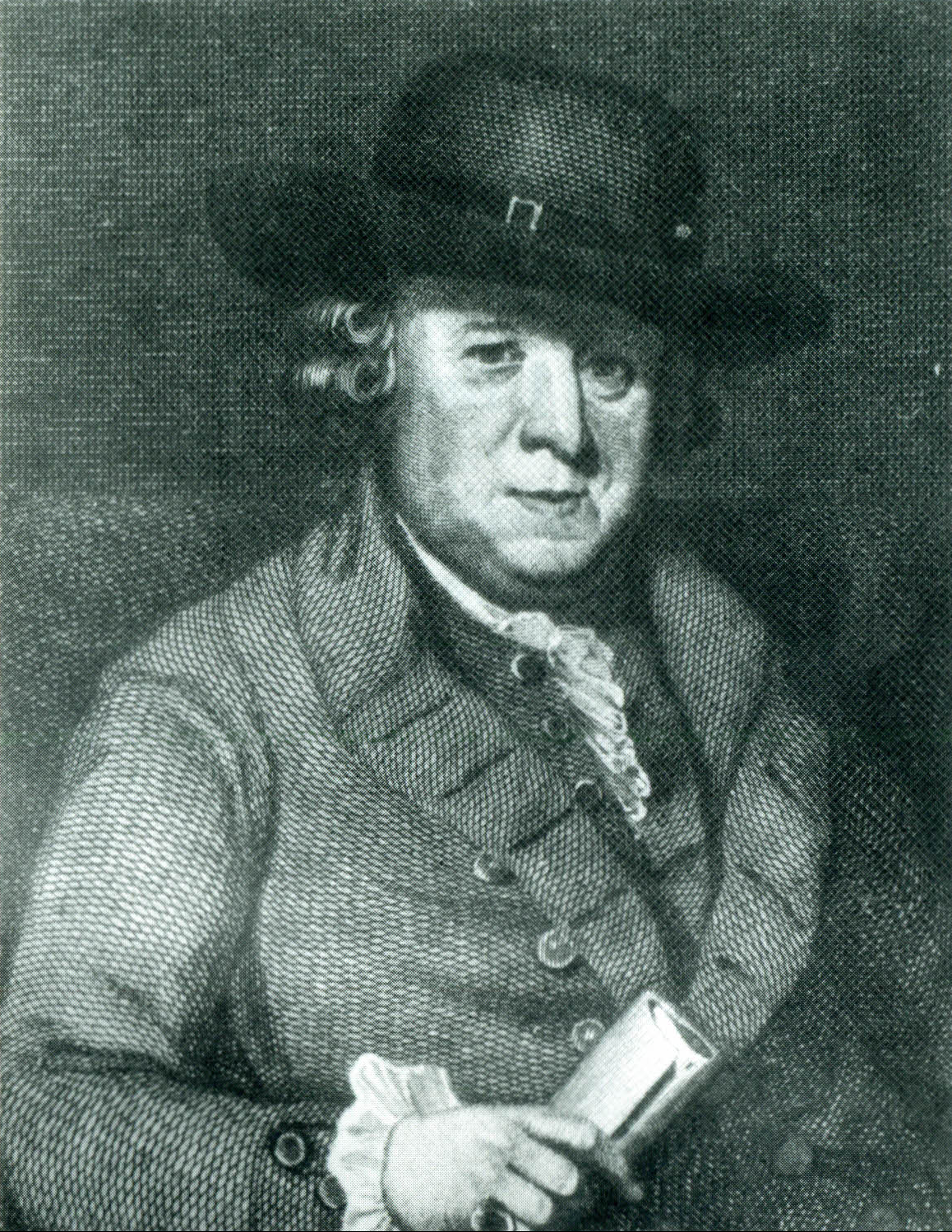 Portrait of John Thorpe (antiquarian, 1715–1792).